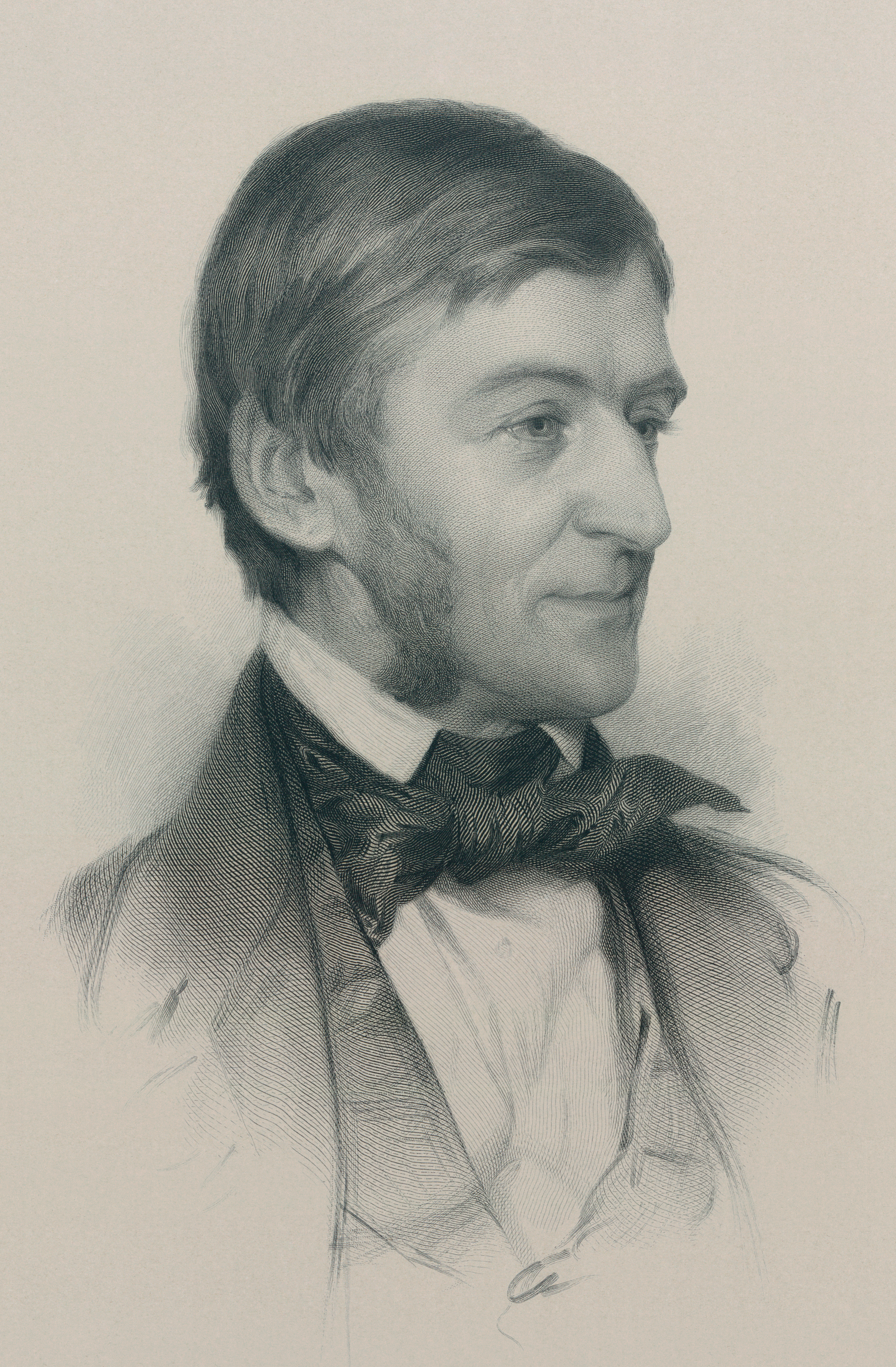 " [Ralph Waldo Emerson, head-and-shoulders portrait, facing right] / engraved and published by S.A. Schoff ... from an original drawing by Sam W. Rowse in the possession of Charles Eliot Norton, Esq. ; S.A. Schoff." Engraving.